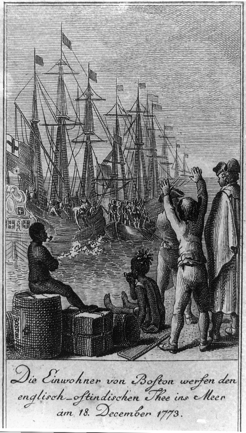 The residents of Boston throw English-East indian tea into sea on December 18, 1773. Engraving shows citizens of Boston, disguised as Indians, boarding ships in Boston Harbor and throwing chests of tea overboard. CREATED/PUBLISHED: 1784. ARTIST: Daniel Chodowiecki, 1726-1801. ENGRAVER: Daniel Berger, 1744-1824.